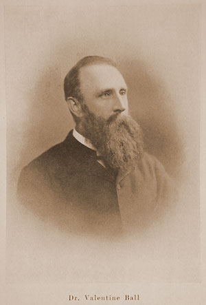 Valentine Ball (Irish naturalist, 1843-1895)